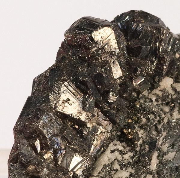 Pyrargyrite Locality: Zacatecas, Mexico (Locality at ) Size: 3.0 x 2.9 x 0.9 cm. A fine radial fan of lustrous, sharp to anhedral pyrargyrite crystals around a core of quartz from the silver mines of Zacatecas, Mexico. Unusual formation and shape. The sharp crystals show flashes of the classic, ruby silver color under good light. Ex. Jaime Bird and Miguel Romero Collections. An excellent provenance for this excellent specimen.